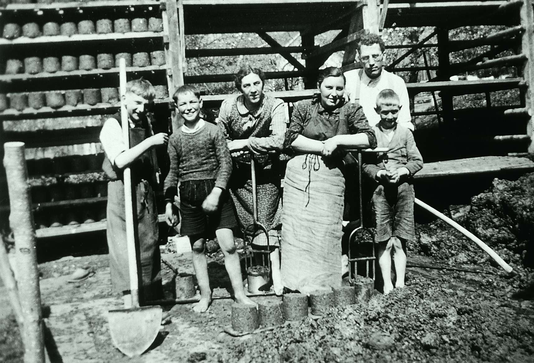 Family Thurnher from the Gasthaus Traube ("Trubowirts"), Mühlebacherstraße 23, Dornbirn (Vorarlberg, Austria) - doing "lohrkäsa" (production of Lohkäse from remains of the cider). The picture was probably taken around the time of World War II. In the background you can see the Lohkäse racks and the dried Lohkäse. The photo was taken by Ida Mark and provided and released by the "Stadtarchiv Dornbirn" (meaning: city archive in Dornbirn).